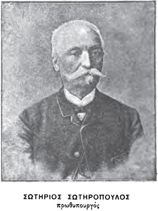 Hestia (1876) Author: Diomedes, Paulos Subject: Greek literature, Modern; Greek periodicals Publisher: Athēnēsi : s.n. Year: 1894 Possible copyright status: NOT_IN_COPYRIGHT Language: Greek Digitizing sponsor: Google Book from the collections of: Harvard University Collection: americana